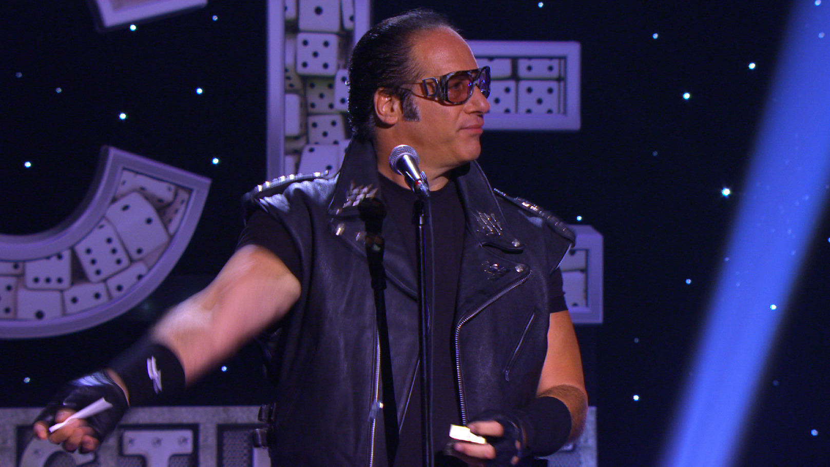 Andrew Dice Clay This photo was taken on December 4, 2012.